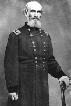 Andrew Jackson Smith (1815-1897), Union General, from